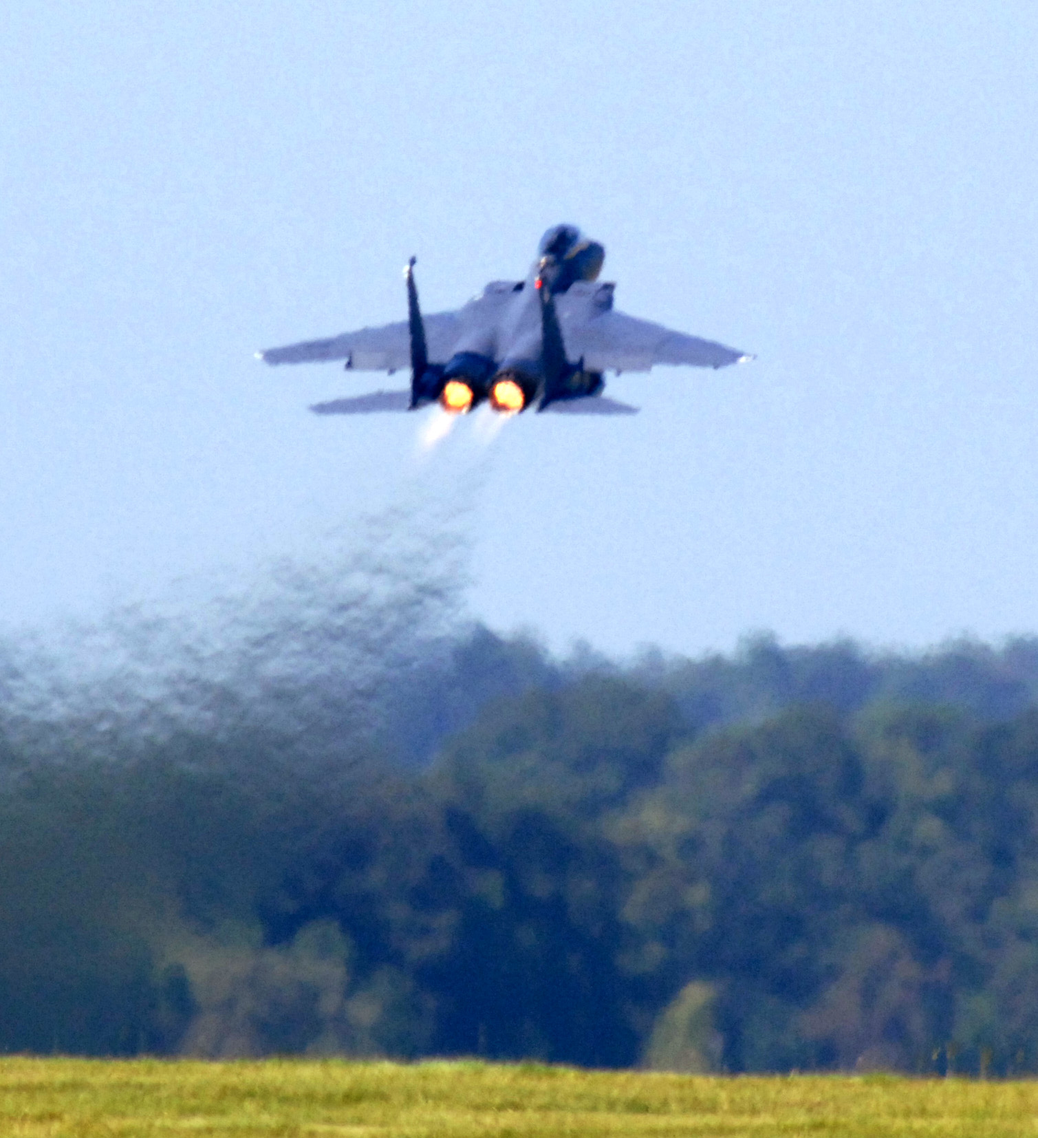 An F-15E Strike Eagle takes off from Seymour Johnson Air Force Base as a part of a base wide preparation for the approaching Hurricane August 4th, 2008. Approximately 80 Strike Eagles and 3 KC-135 Stratotankers are being evacuated to Wright Patterson Air Force Base in Dayton, Ohio to ride out Hurricanes? Hannah and Ike. (U.S. Air Force Photo by Airman 1st Class Rae Henline)